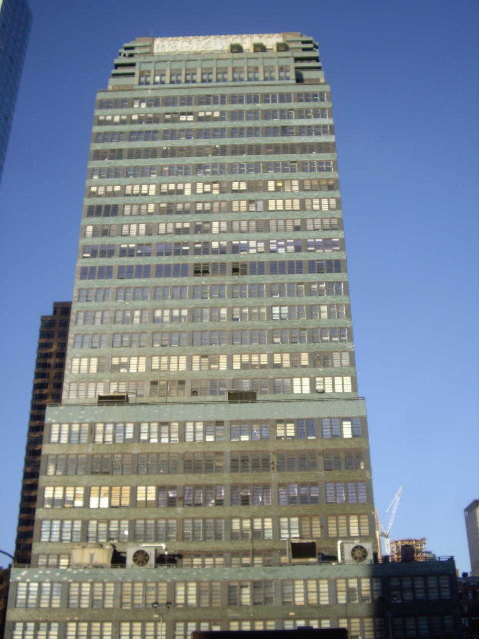 McGraw Hill, 330 W42nd Street. NYCLPC designation 1979. Guide to NYC Landmarkr map 9.